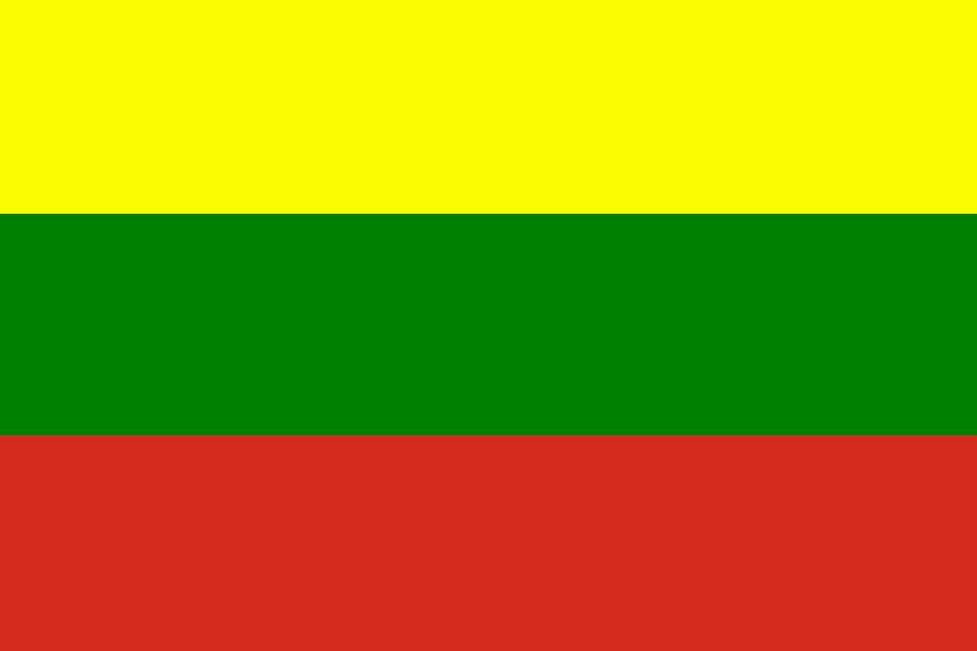 Conjectural flag of Zululand (1884-1897) by Roberto Breschi taken from The South African Flag Book by A.P.Burgers published in 2008 by Protea Boekhuis